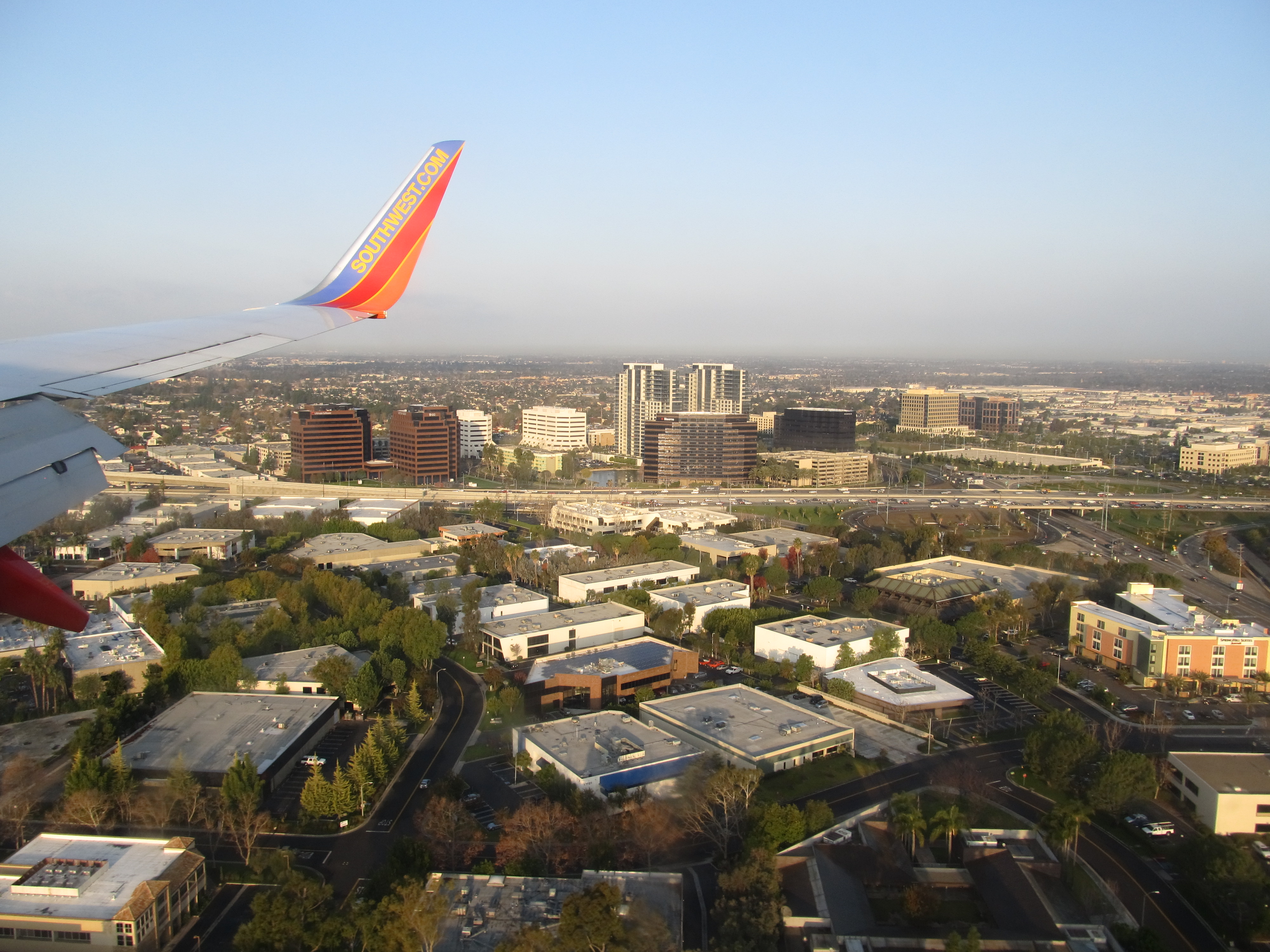 Santa Ana is the county seat and second most populous city in Orange County, California, and with a population of 324,528 at the 2010 census, Santa Ana is the 57th-most populous city in the United States. Founded in 1869, Santa Ana is located in Southern California adjacent to the Santa Ana River, 10 miles (16 km) away from the California coast. The city is part of the Greater Los Angeles Area which, according to the U.S. Census Bureau, is the second largest metropolitan area in the U.S., with almost eighteen million people. According to the 2000 U.S. Census, of U.S. cities with more than 300,000 people, Santa Ana is the 4th-most densely populated behind only New York City, San Francisco, and Chicago, and slightly denser than Boston. Santa Ana lends its name to the Santa Ana Freeway (I-5), which runs through the city. It also shares its name with the nearby Santa Ana Mountains, and the Santa Ana winds, which have historically fueled seasonal wildfires throughout Southern California. The current Office of Management and Budget (OMB) metropolitan designation for the Orange County Area is "Santa Ana-Anaheim-Irvine, CA".